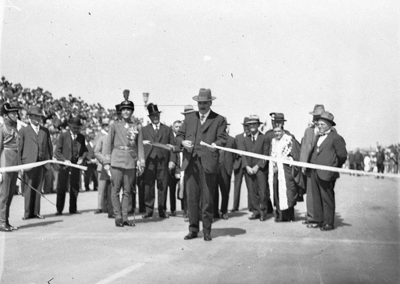 Image of the ribbon ceremony to open the Sydney Harbour Bridge on 20 March 1932. Premier Jack Lang cuts the ribbon while Governor Sir Philip Game (left) with his ADC, Lord Gifford (far left), and Sydney Lord Mayor, Samuel Walder (right), look on.